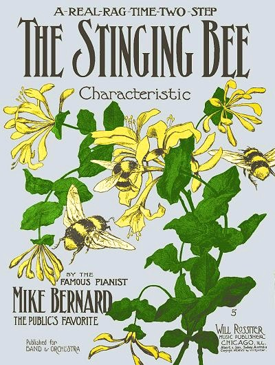 Stinging Bee, 1908